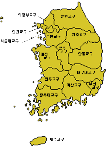 Roman catholic dioceses of South Korea and their name